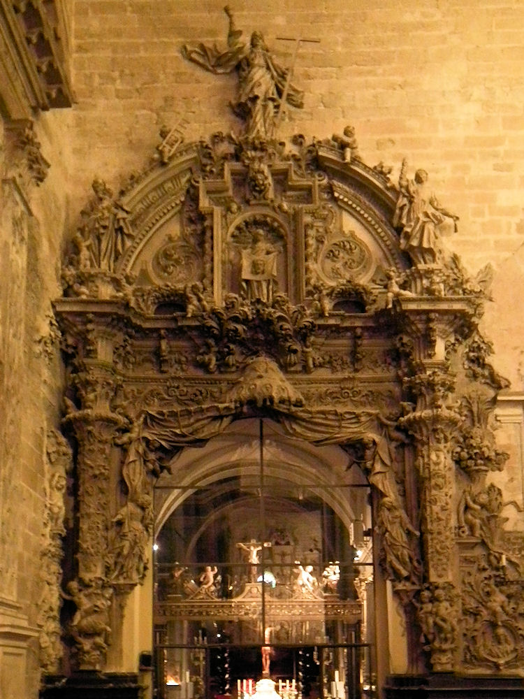 Baroque portal with reliefs — into the "Capilla del Santo Cristo de los milagros". A side chapel in the Catedral de Santa María de la Asunción (Barbastro Cathedral). Located in Barbastro, Provincia de Huesca, Aragón, northern Spain.